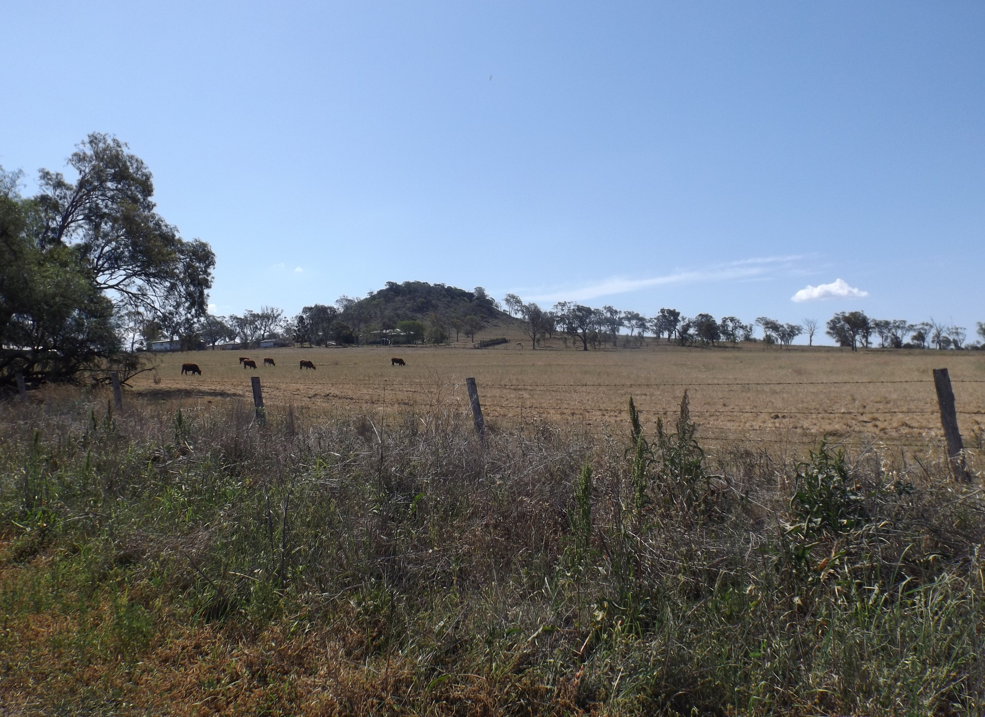 Photo of paddocks at Vale View, Queensland, Australia.